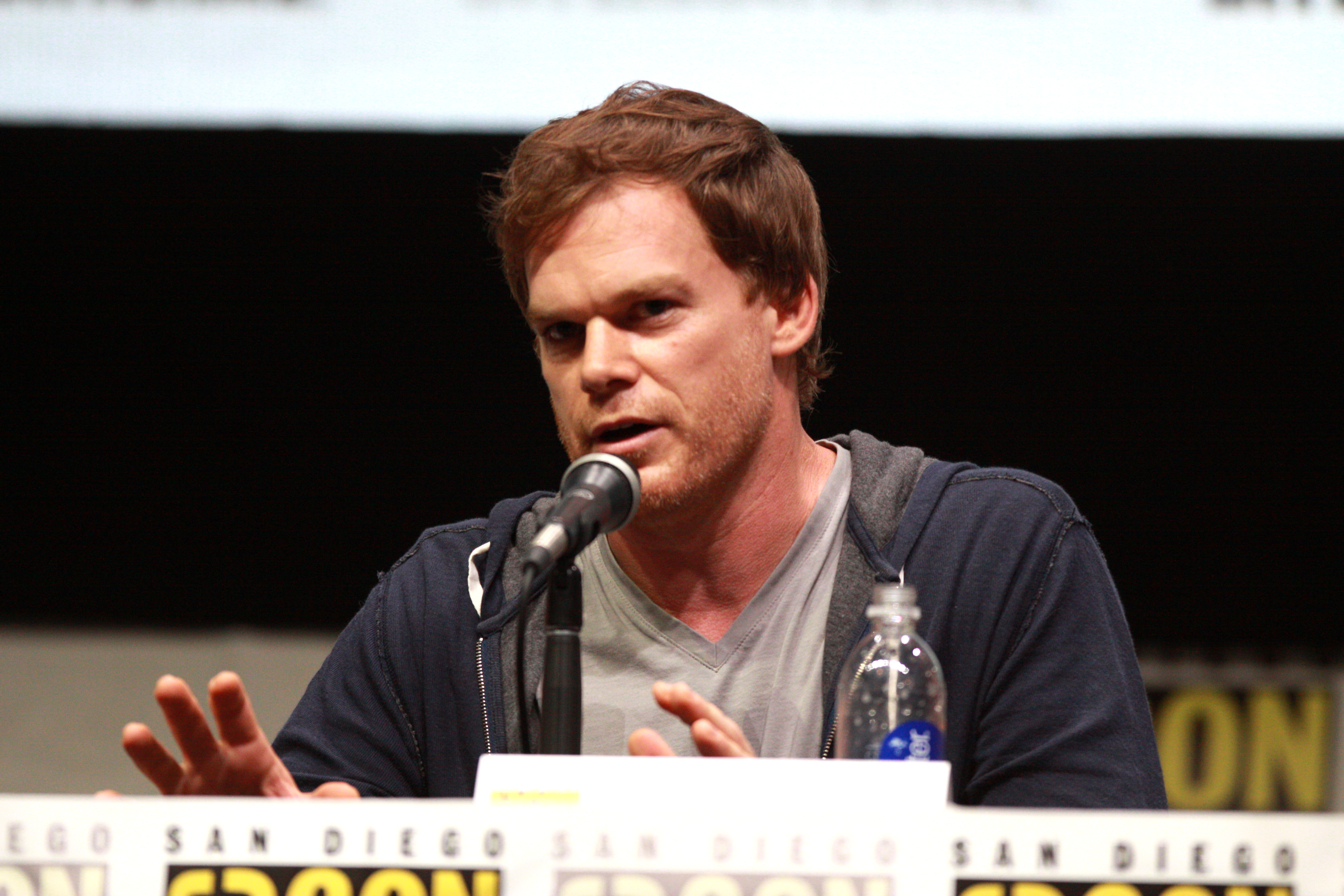 Michael C. Hall speaking at the 2013 San Diego Comic Con International, for "Dexter", at the San Diego Convention Center in San Diego, California.